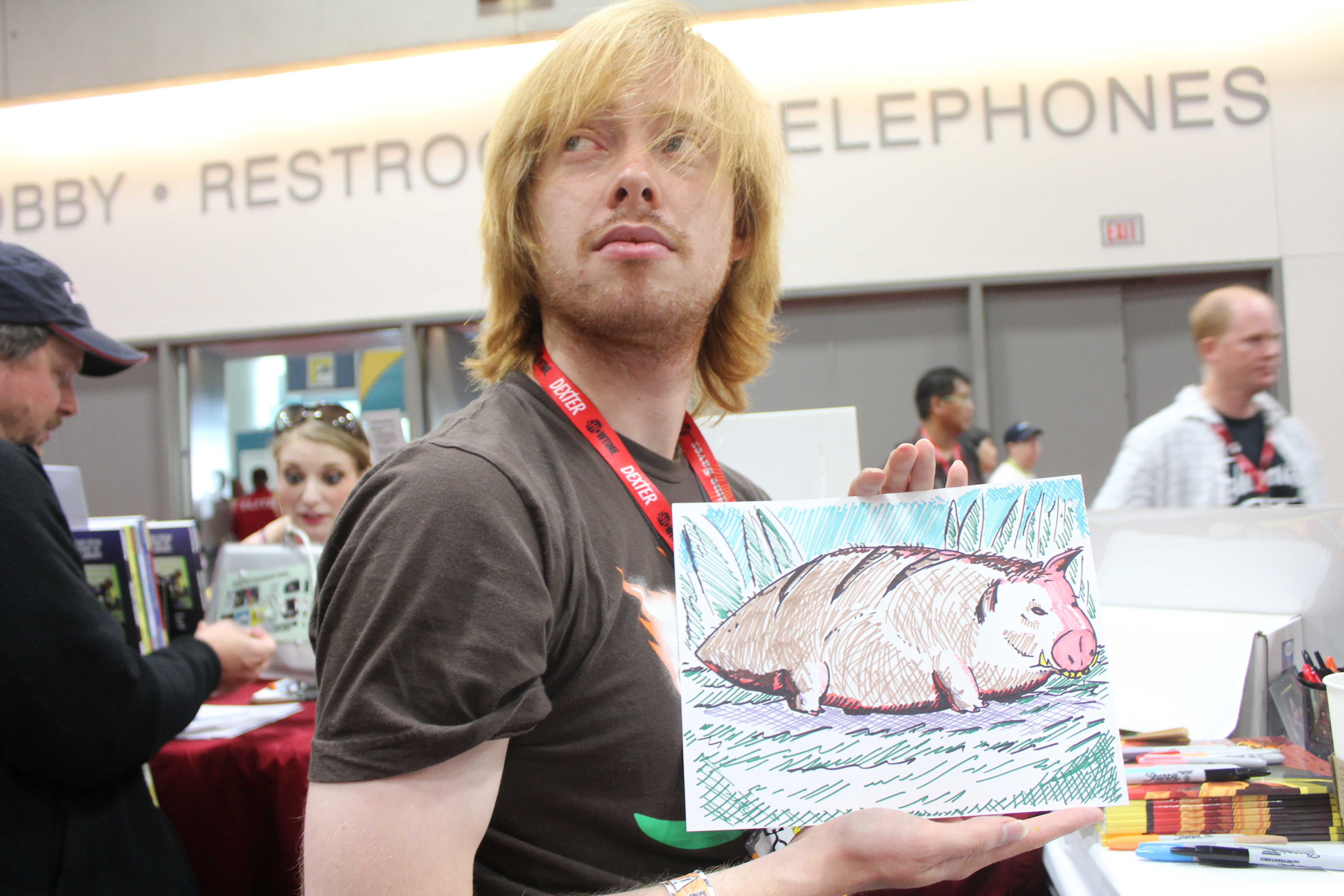 American cartoonist Zach Weiner, of Saturday Morning Breakfast Cereal draws the feral ancestor of the modern domesticated Breadpig, the wild Baguette Boar, at San Diego Comic-Con International. (Breadpig is a publishing company.)